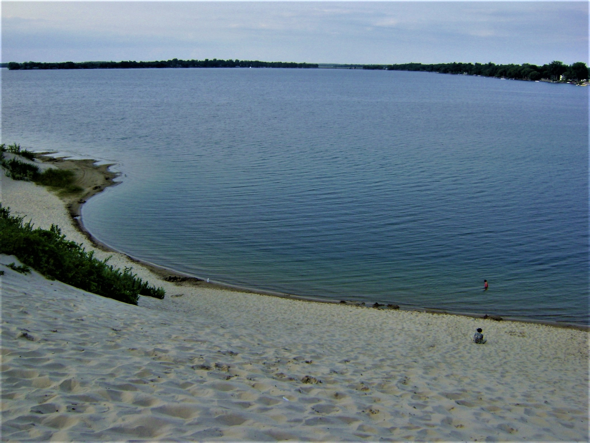 Sandbanks Provincial Park- Dunes Beach-Ontario Lookout on top of the dunes This photo was taken in a protected area in Canada, Wikidata item Sandbanks Provincial Park (Q2220474)